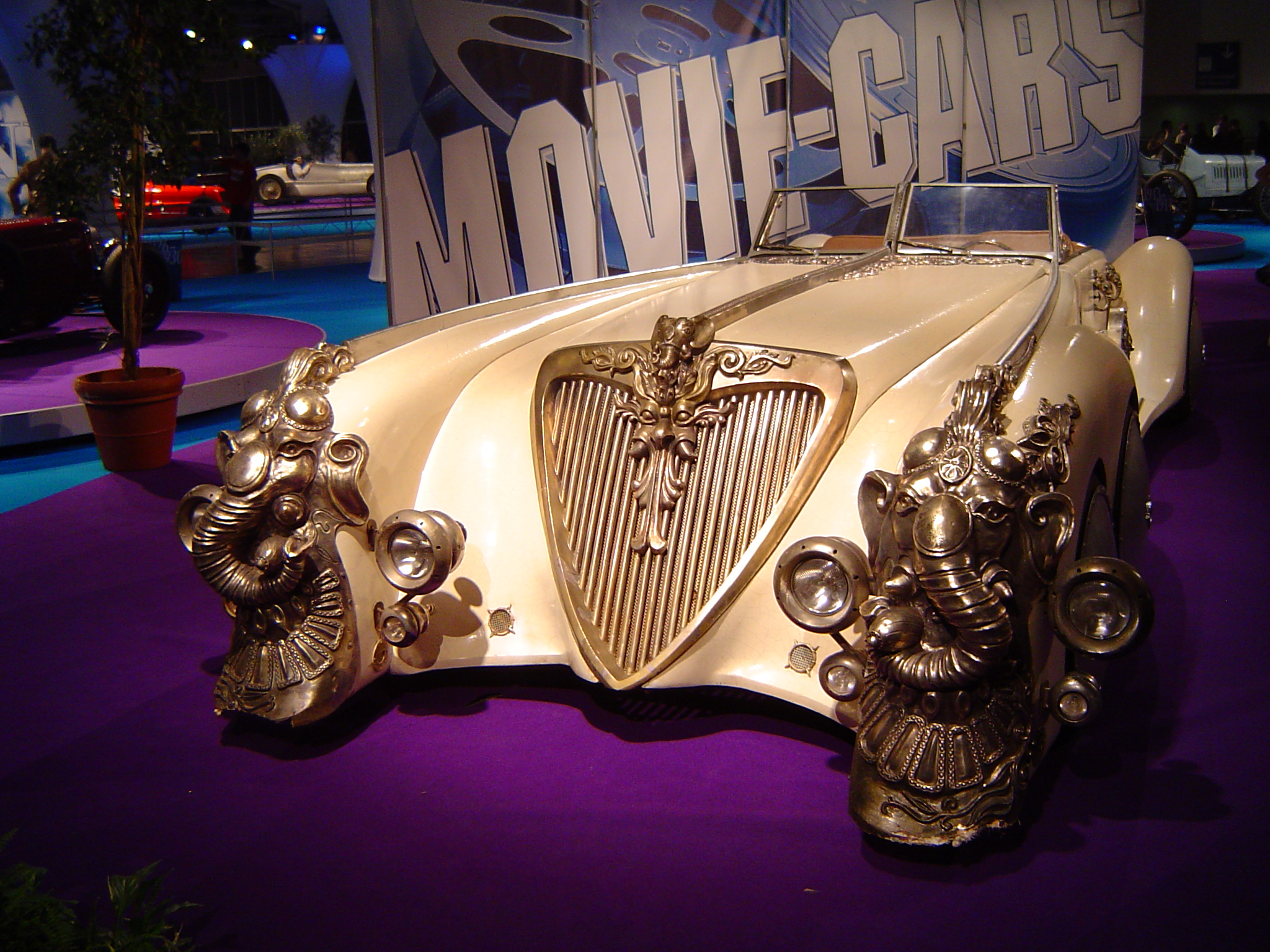 Car from The League of Extraordinary Gentlemen displayed at Essen Motor Show 2004.